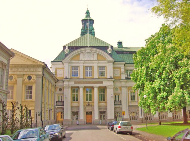 Per Brahegymnasiet (Sixth form college) in the Swedish city of Jönköping.